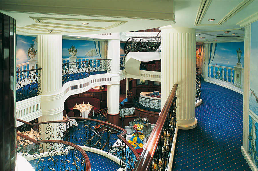 Bild der Lobby der Royal Clipper